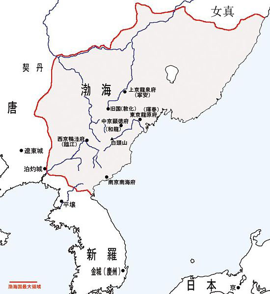 Largest Area of Balhe